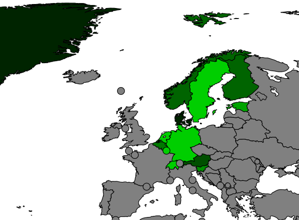 Green indicates nations in which the name Sven is commonly found.